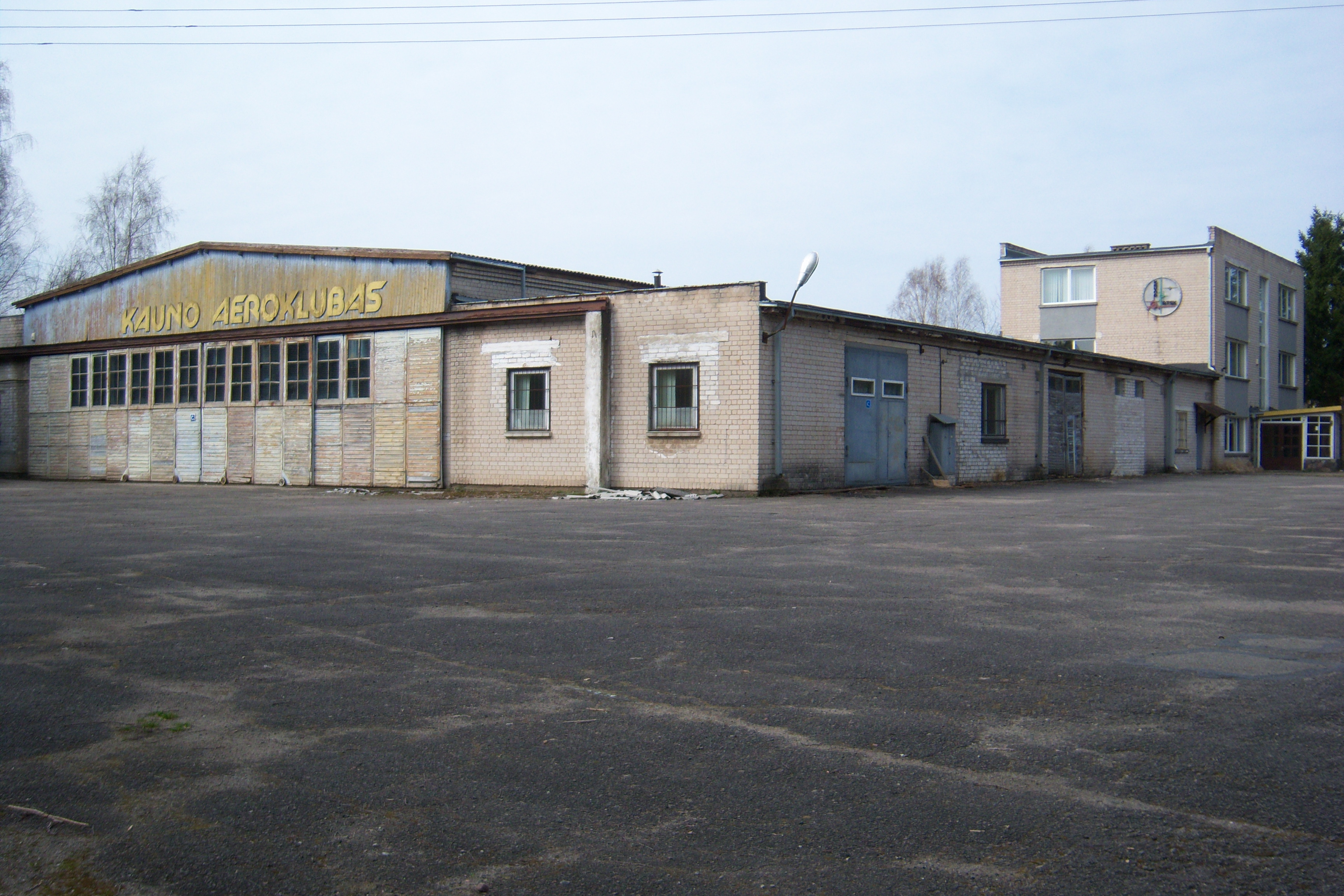 Kaunas Aeroclub, Prienai district, Lithuania